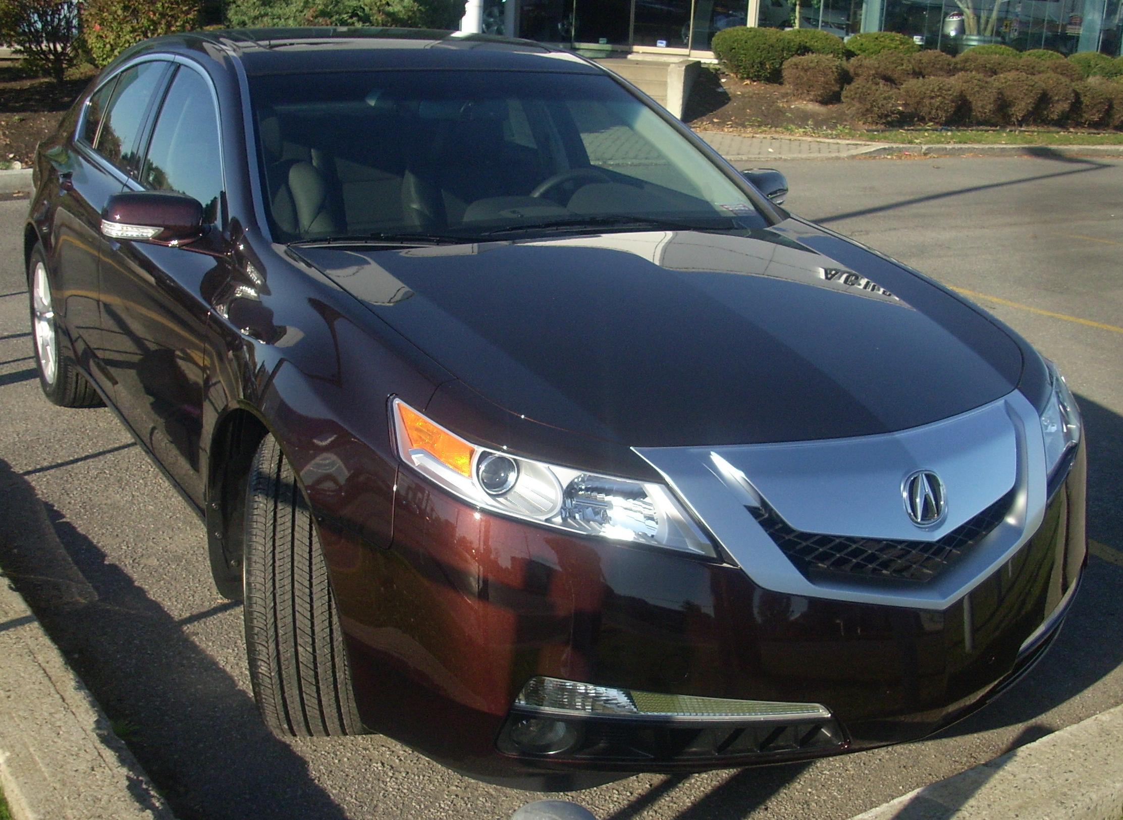 2009 Acura TL photographed in Montreal, Quebec, Canada.